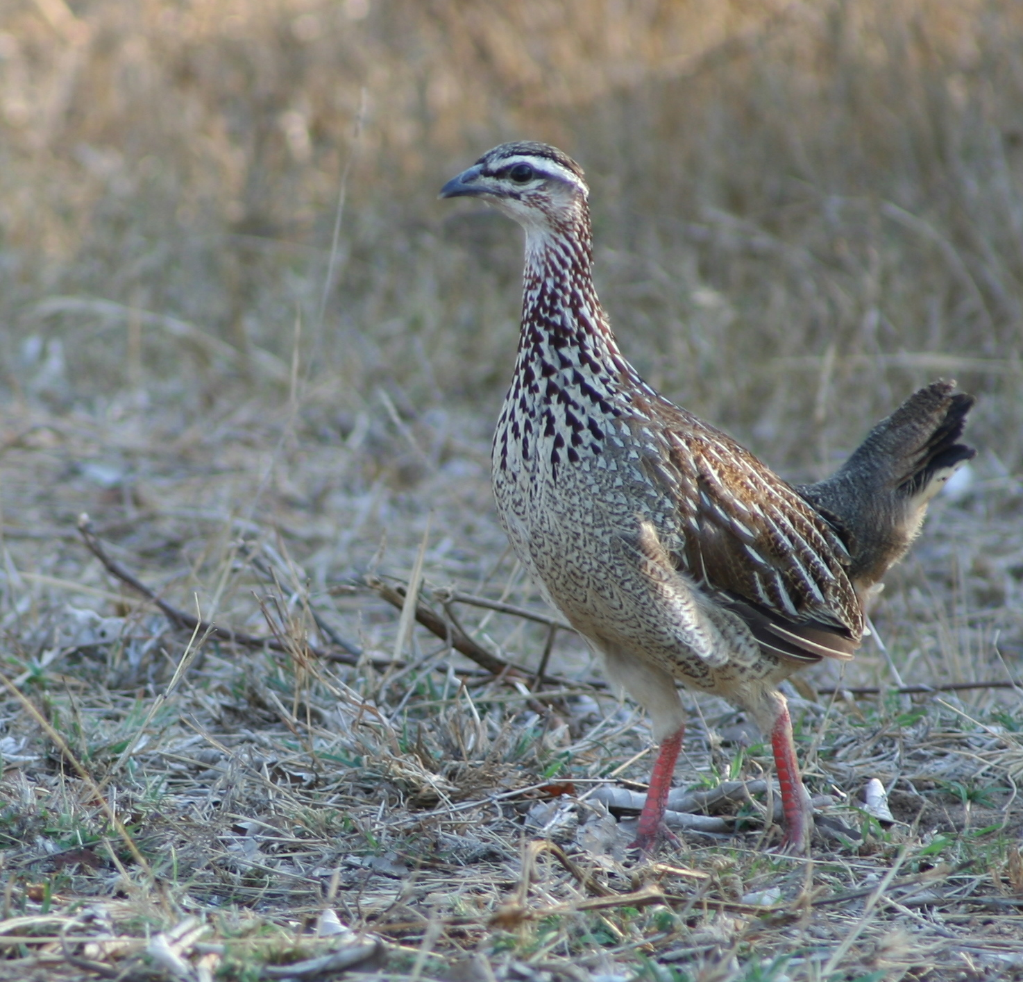 A Crested Francolin at Kruger National Park, South Africa.